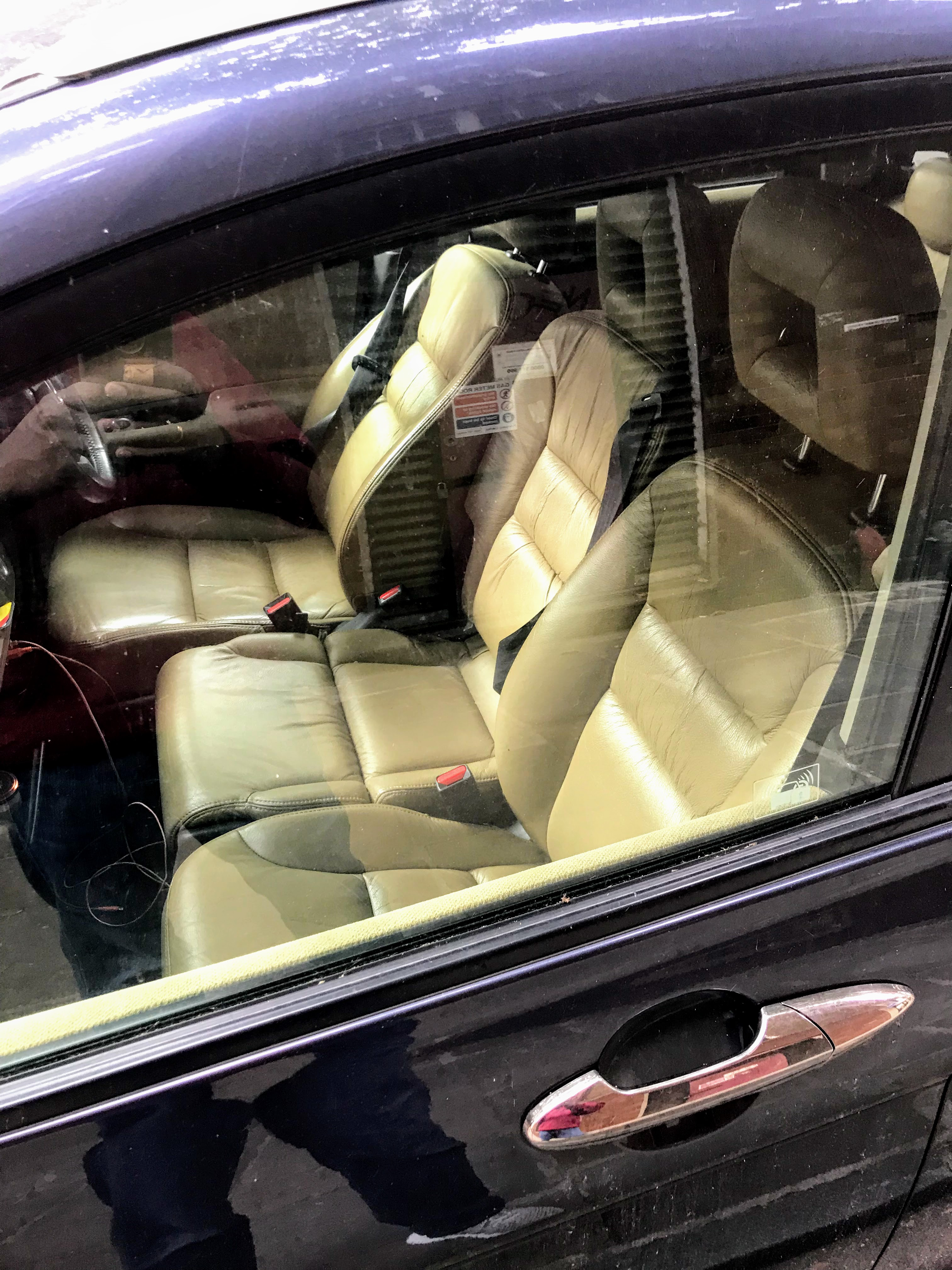 Picture from 2019 visit to UK. Honda FR-V front seats in a 3+3 seating config